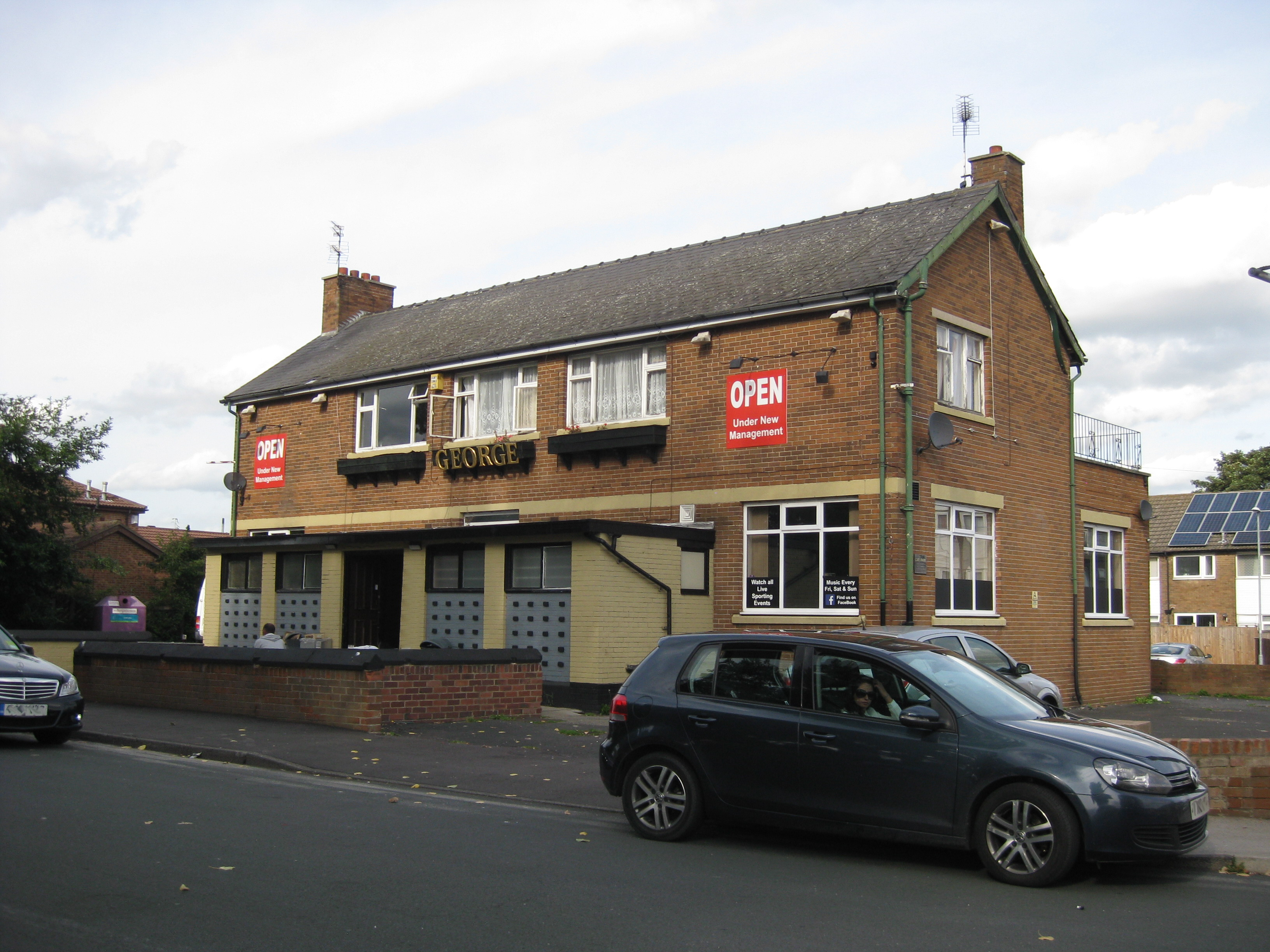 The George pub (formerly George IV) 17 Grove Road, Hunslet, Leeds, LS10 2QT